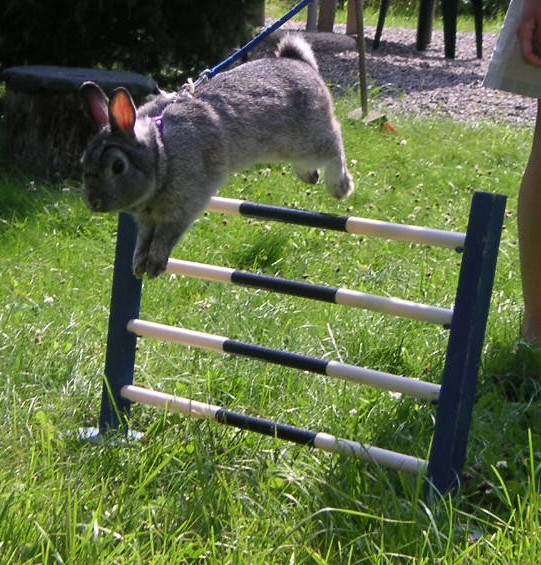 A rabbit jumping at a Rabbit Show Jumping